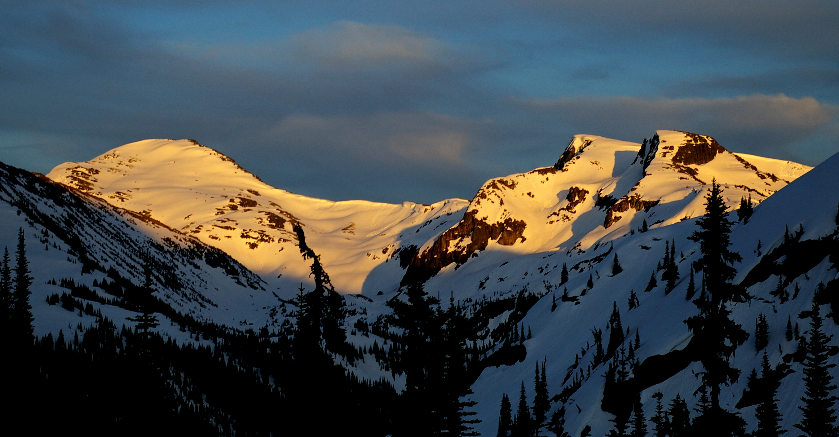 Evening light on Mount Rohr